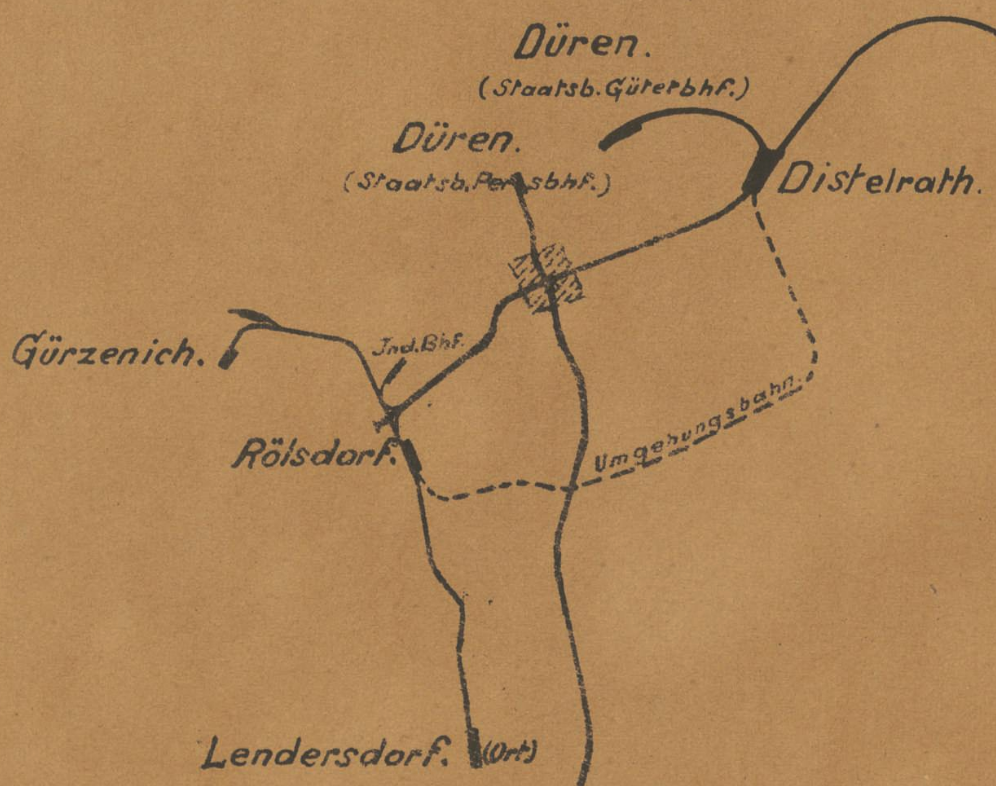 Overview of the bypass freight line of the Dürener Kreisbahn 1906